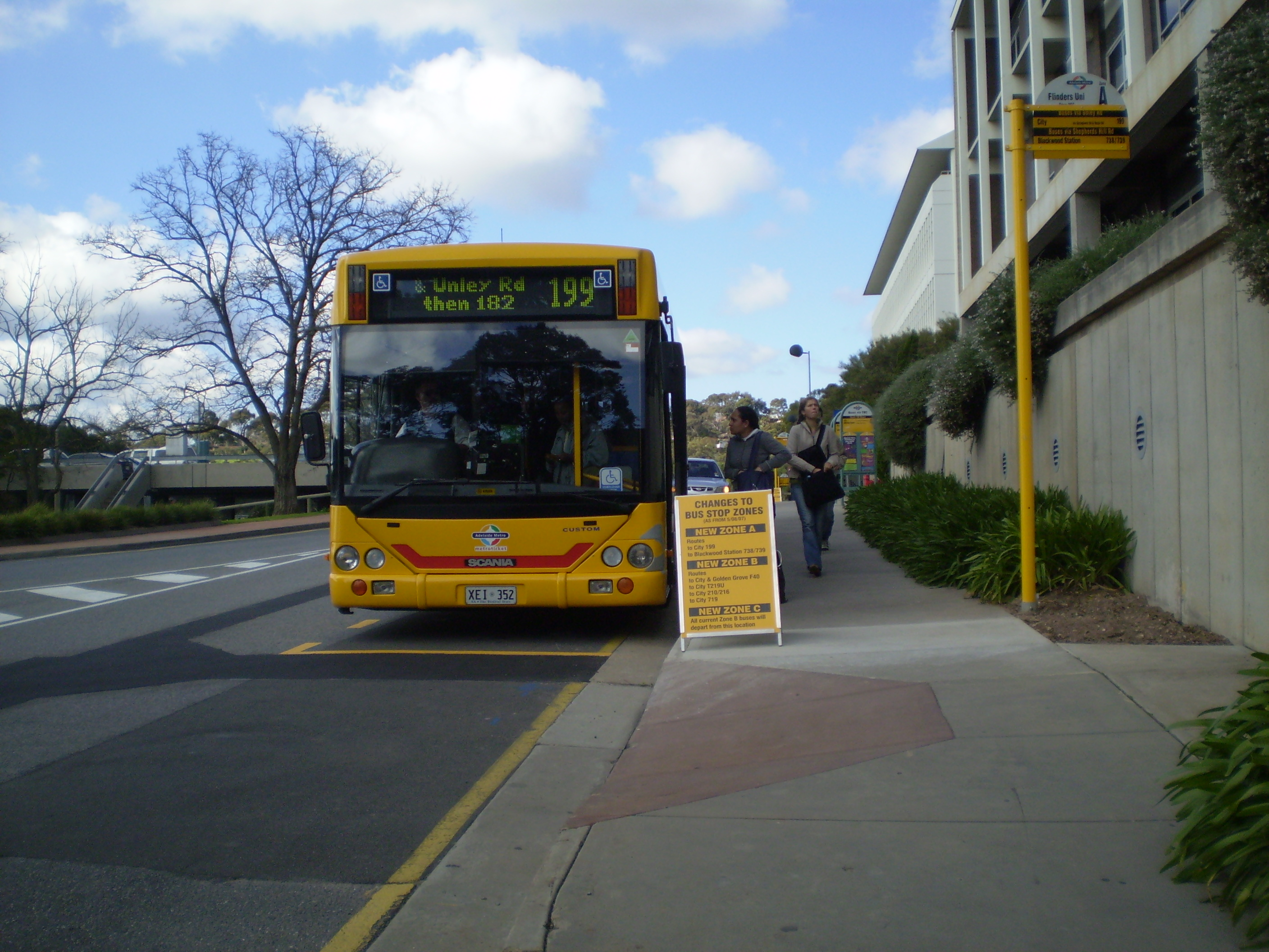 A Custom Coaches "CB60 Combo" bodied Scania L94UA Arctic operated by Torrens Transit on the 199 Route from Marion Shopping Centre to Adelaide. Picture was taken at Flinders University.